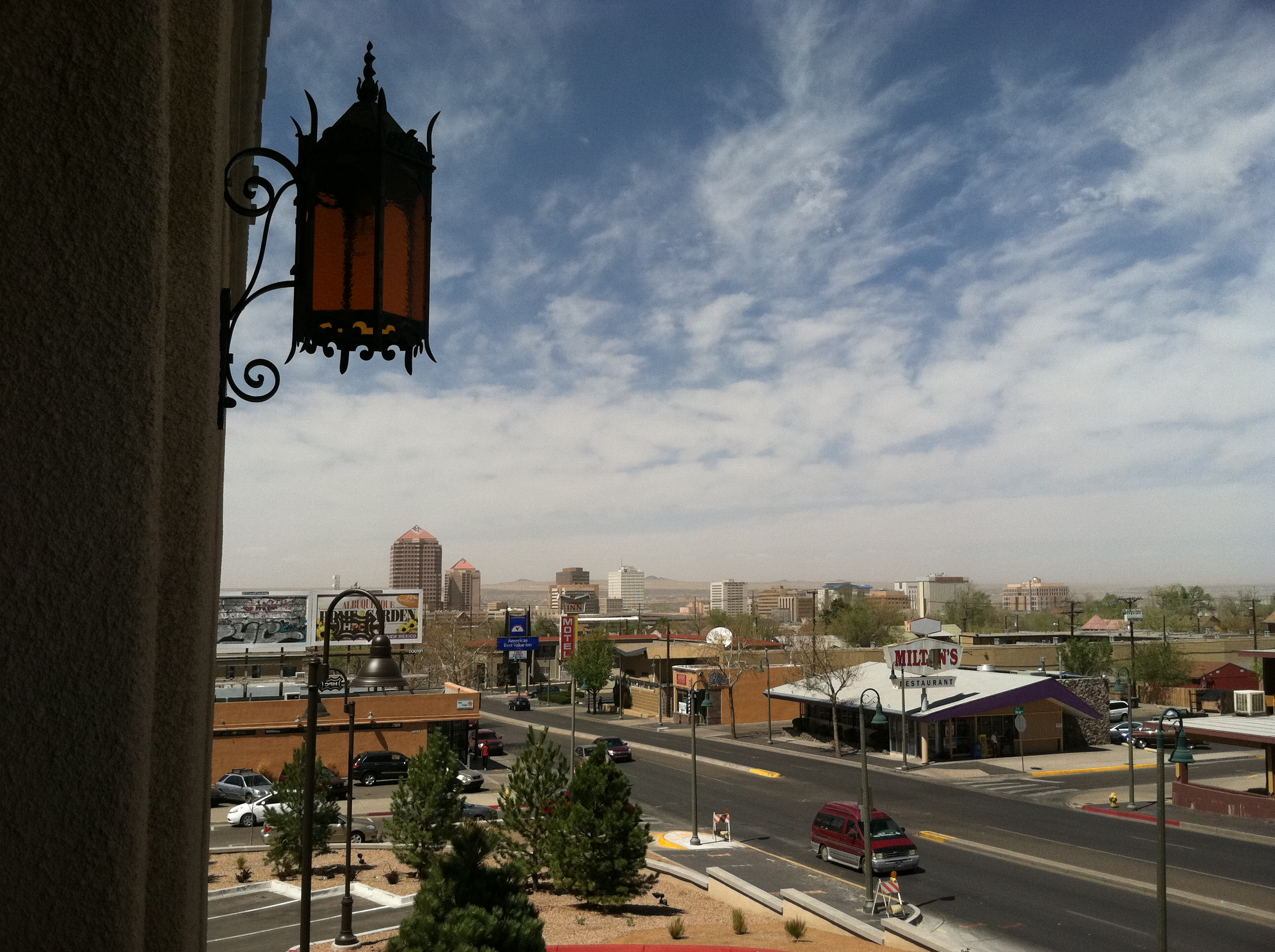 Recently renovated old Memorial Hospital which had been vacant since the Santa Fe Railroad closed it down. Taken in 2011.